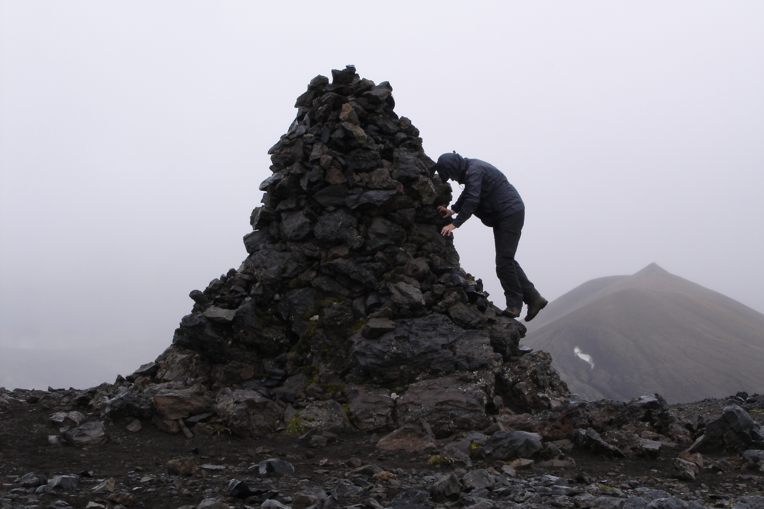 Cairn on the Laugavegur, close to Hrafntinnusker (Iceland)